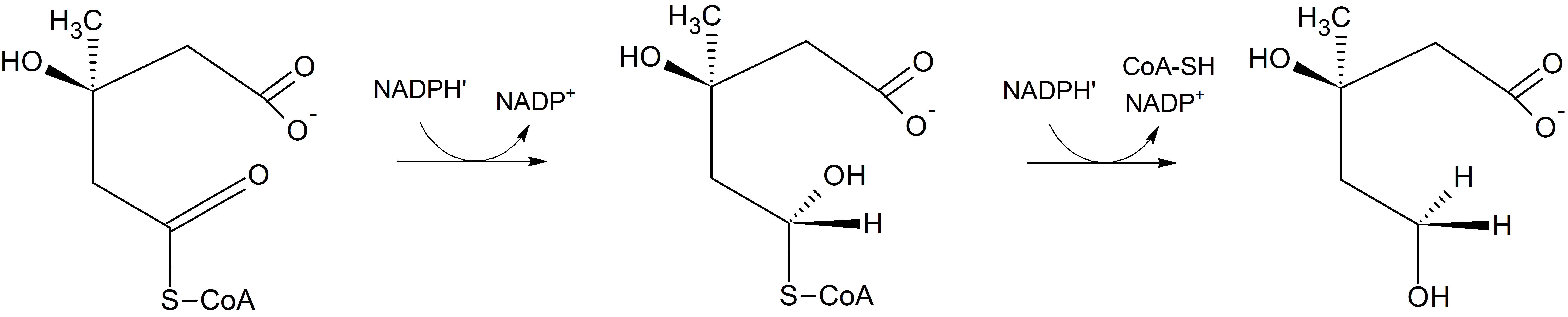 HMG-CoA reductase reaction